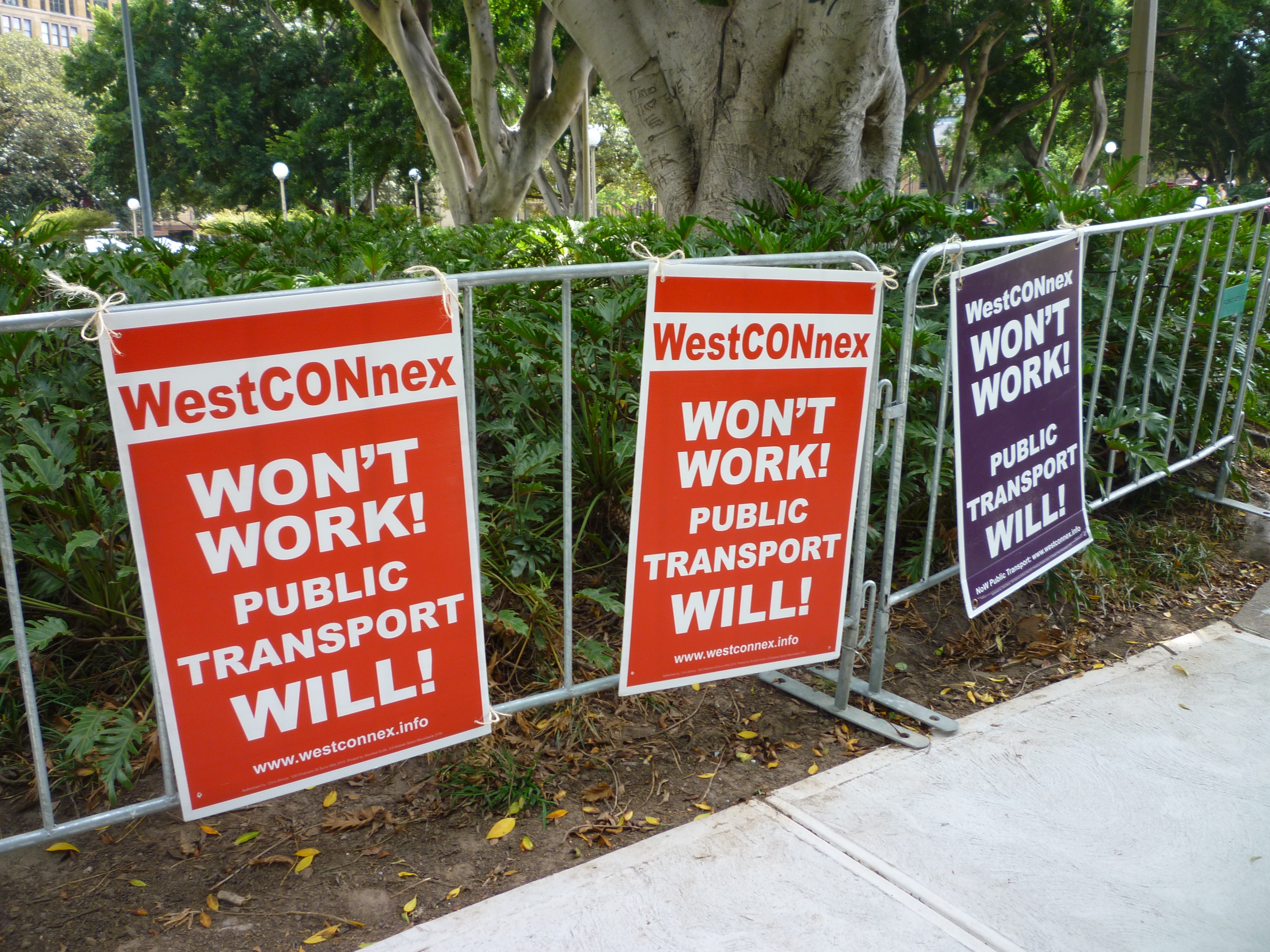 Protest sign, Hyde Park, Sydney, 13 March 2016